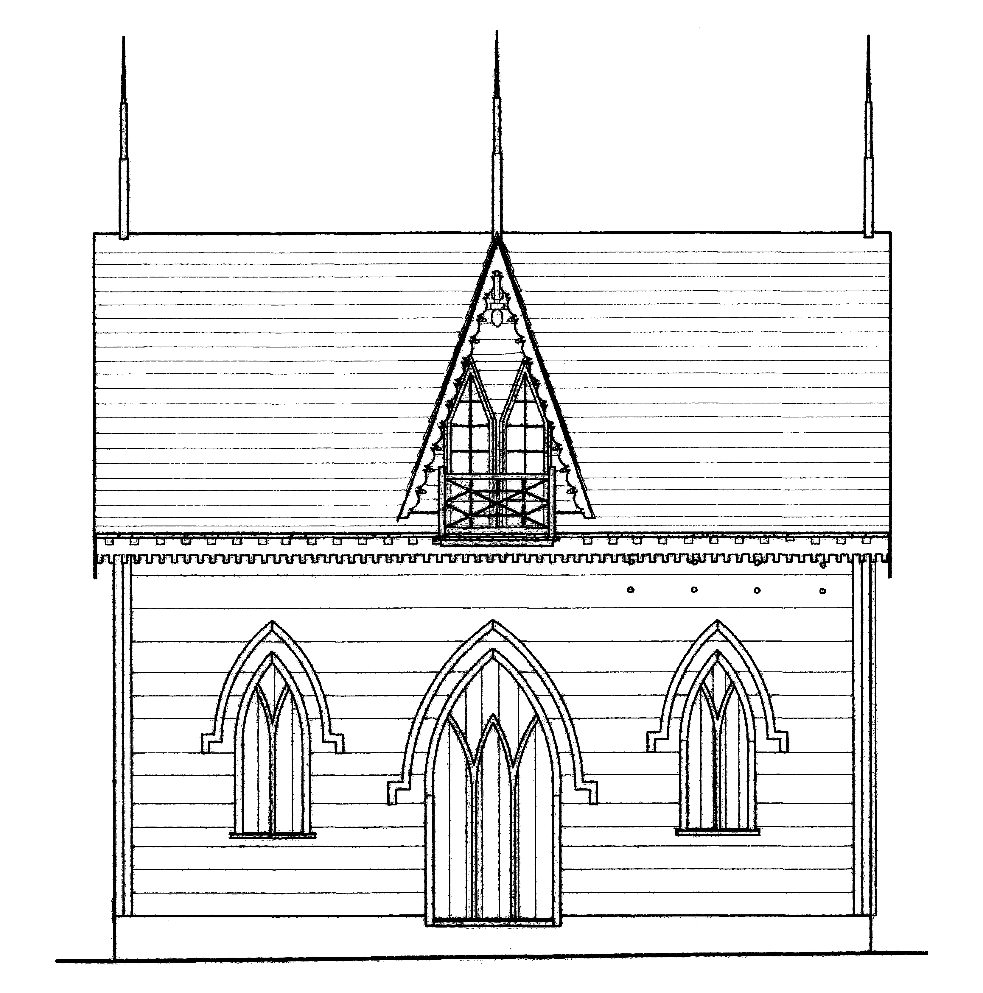 West elevation - Bleak Hall Plantation, Ice House, Ocella Creek, Edisto Island, South Carolina, SC. One of the Bleak Hall Plantation Outbuildings.